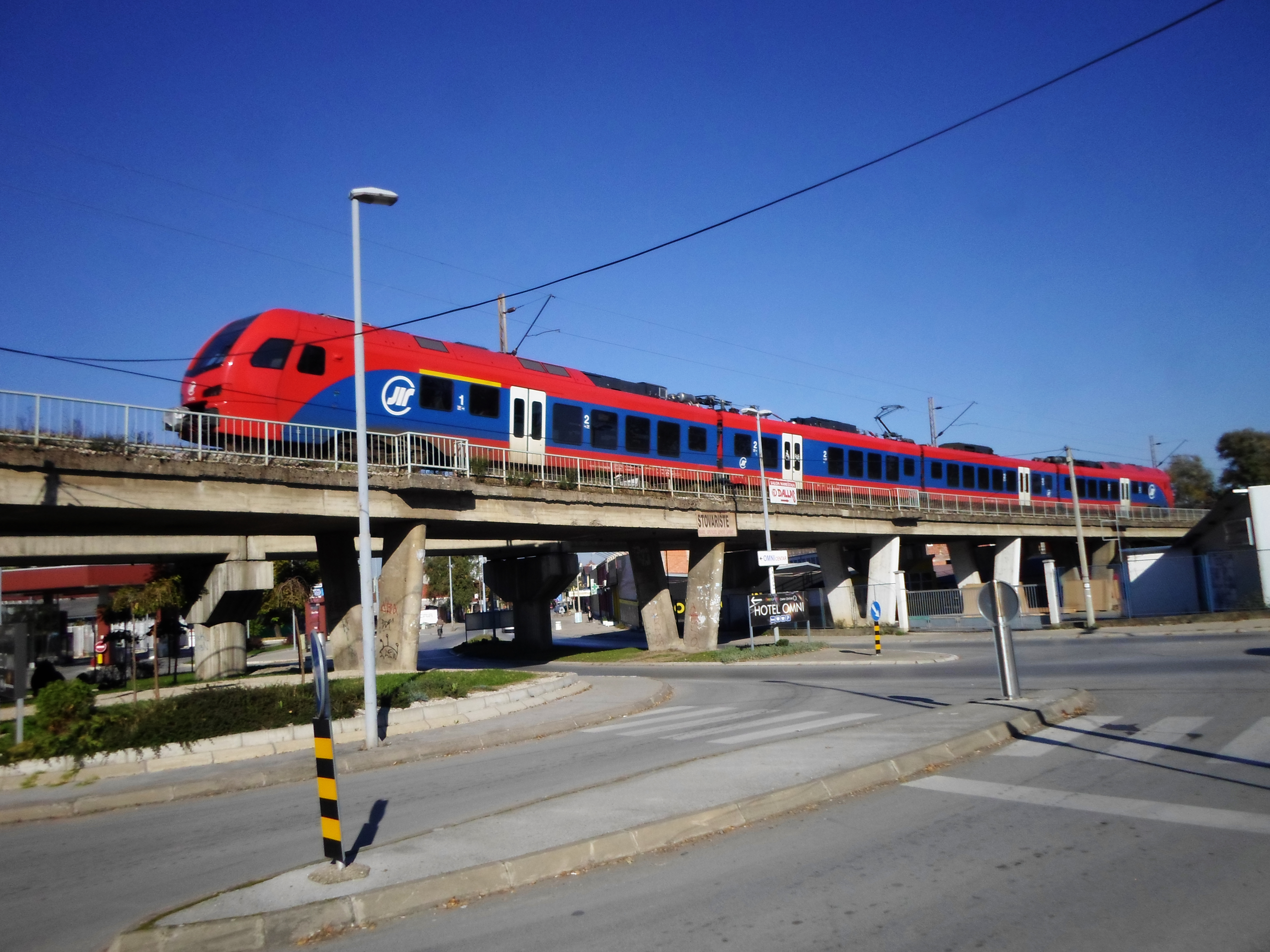 FLIRT3 Class 413 through Valjevo,train 2123.